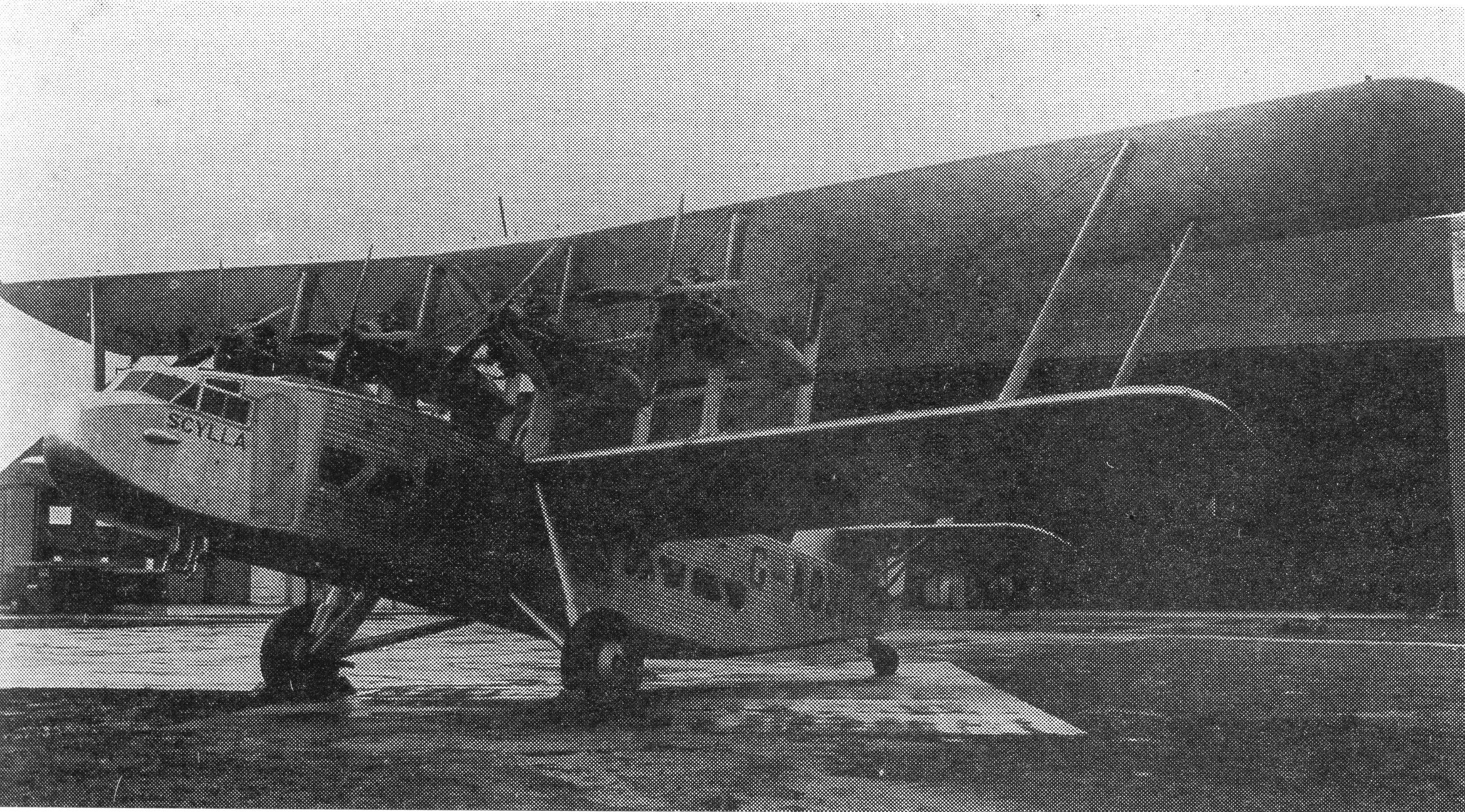 Short Scylla G-ACJJ, May 1934